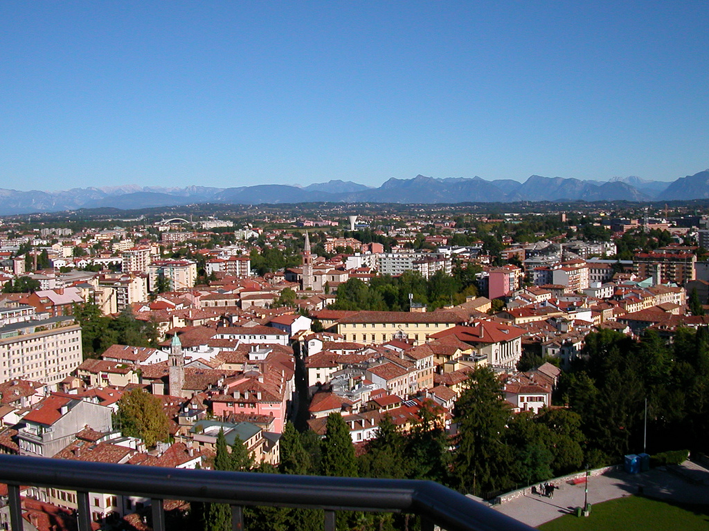 Udine panorama north west